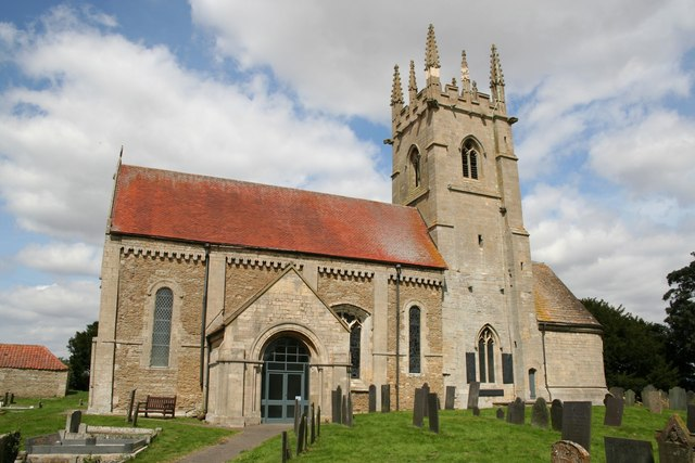 Church of England parish church of St Andrew, Sempringham, Lincolnshire: view form the southwest, showing the high Norman nave